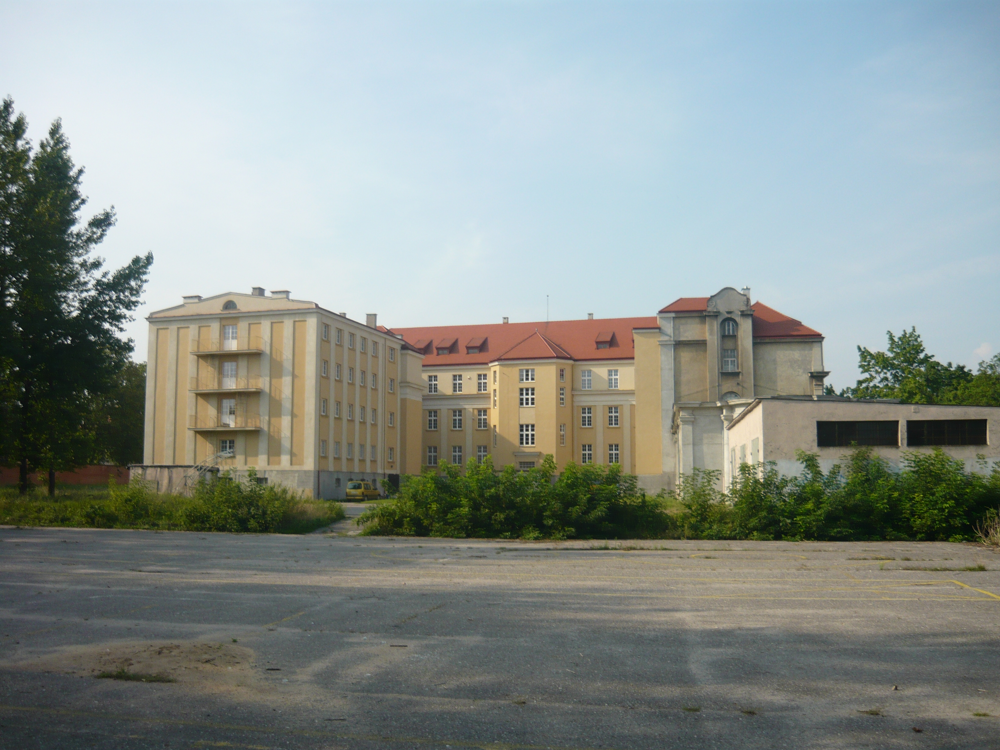 View of the Catholic's Schools Complex named of Jan Długosz in Włocławek. Viewpoint from the football pitch of the Maria Konopnicka's Liceum.